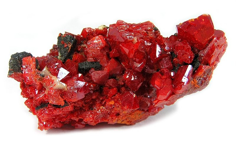 Realgar Locality: Royal Reward Mine, Green River Gorge, Franklin, King County, Washington, USA (Locality at ) Bright red, equant, lustrous, translucent, crystals of realgar, to .8 cm across, abound on this specimen...This is a fine example of an American realgar specimen, from a very obscure locality. One of the best I have seen from here, too! 4.9 x 2.4 x 2.0 cm